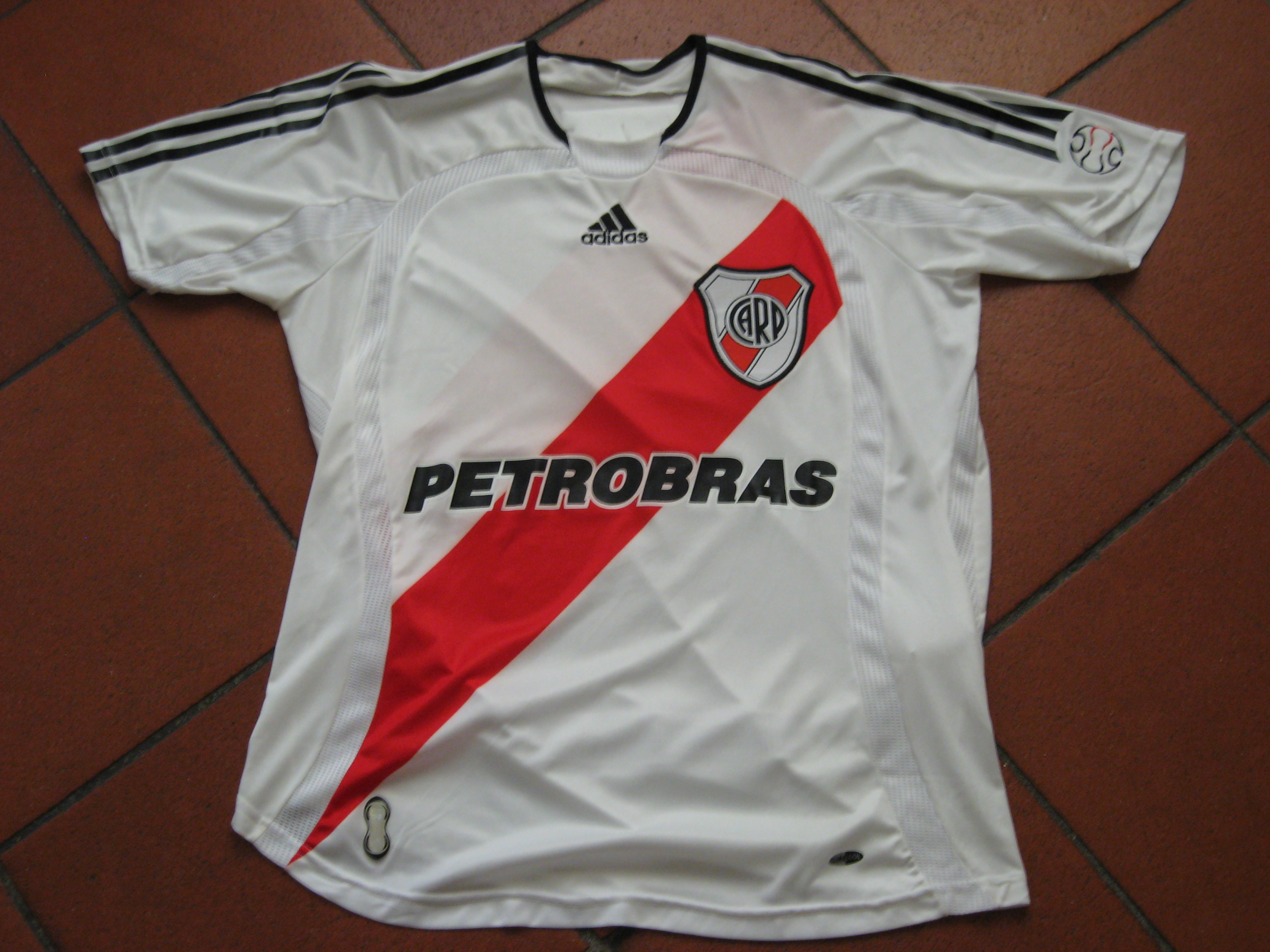 River Plate shirt for the 2006-2007 season